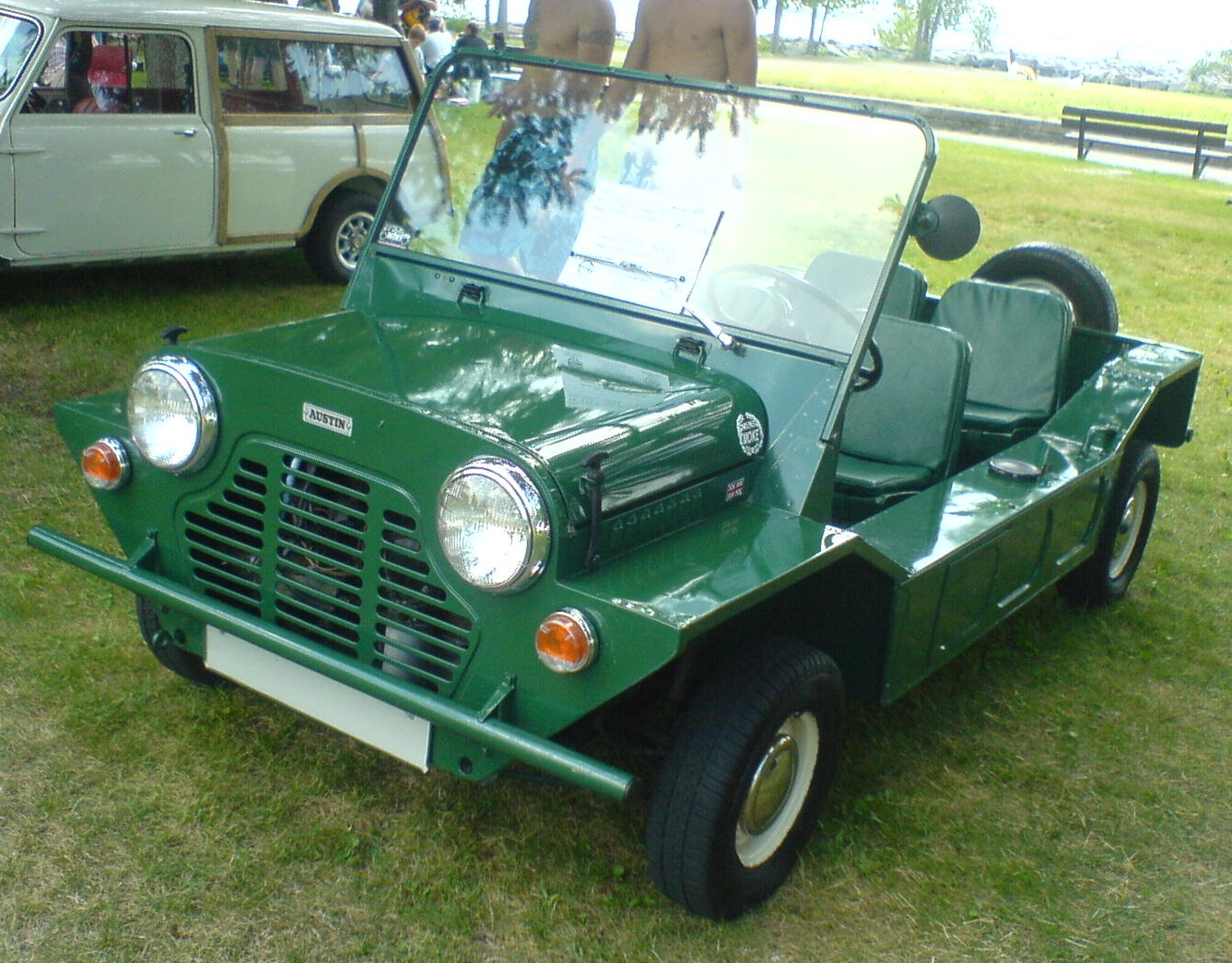 1967 Austin Mini Moke photographed in Ottawa, Ontario, Canada at the 2010 Ottawa British Auto Show.